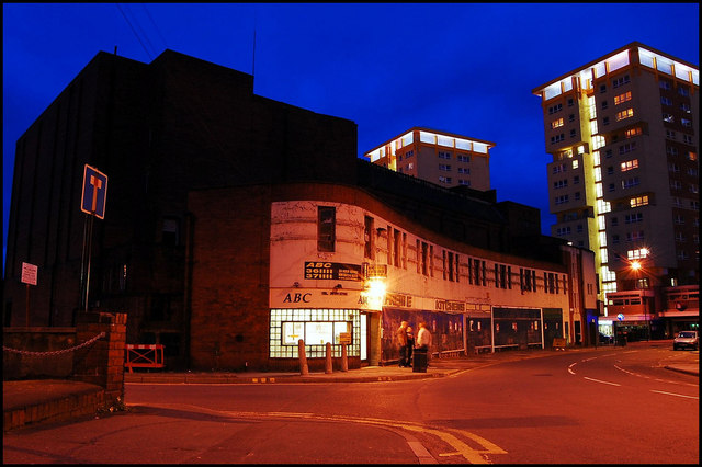 ABC Cinema, Kirkgate, Wakefield, West Yorkshire: designed by William R Glen, opened as the Regal in 1935, sold to Cannon in 1986 and closed in 1997